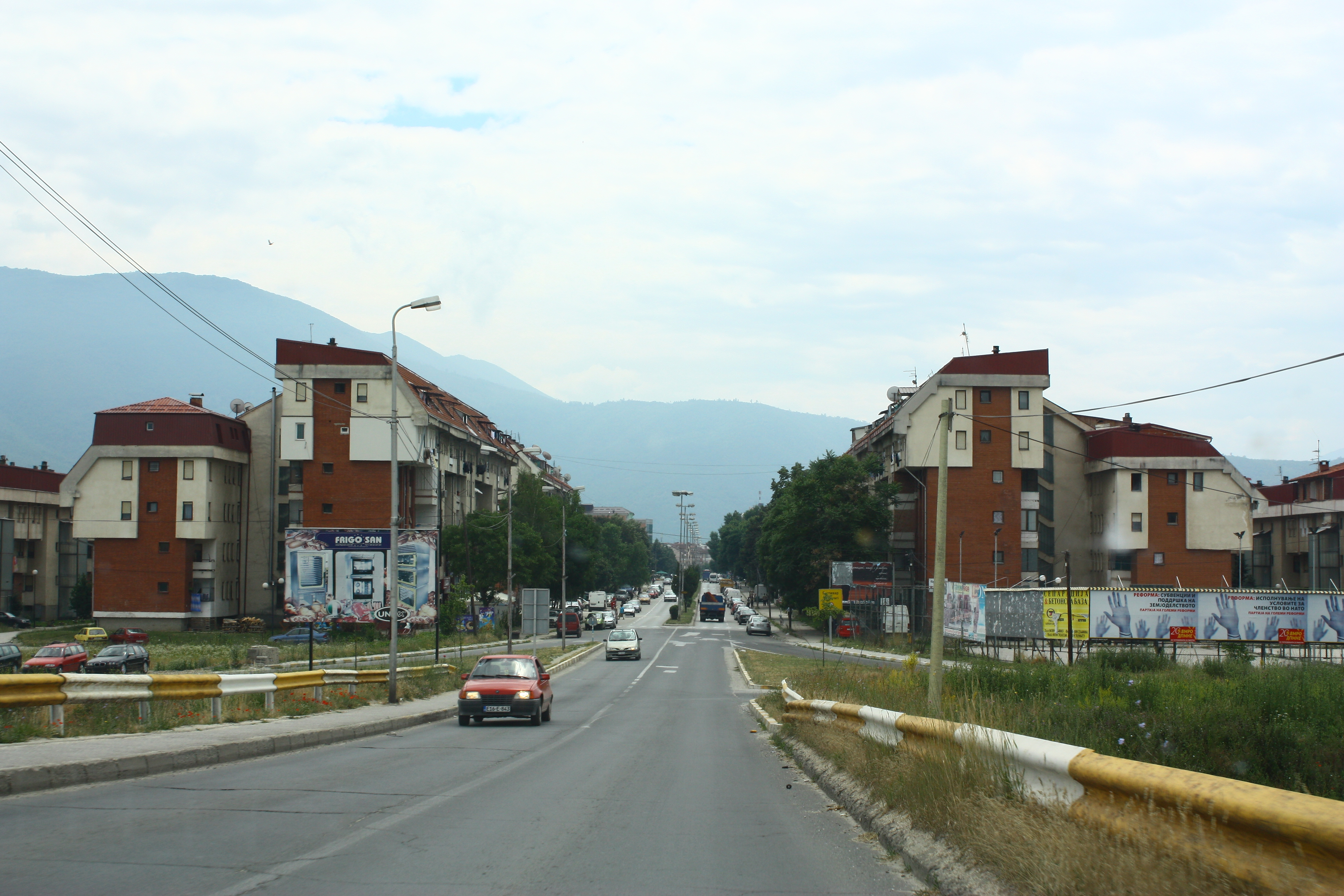 Maleardi quarter in Gostivar, Macedonia